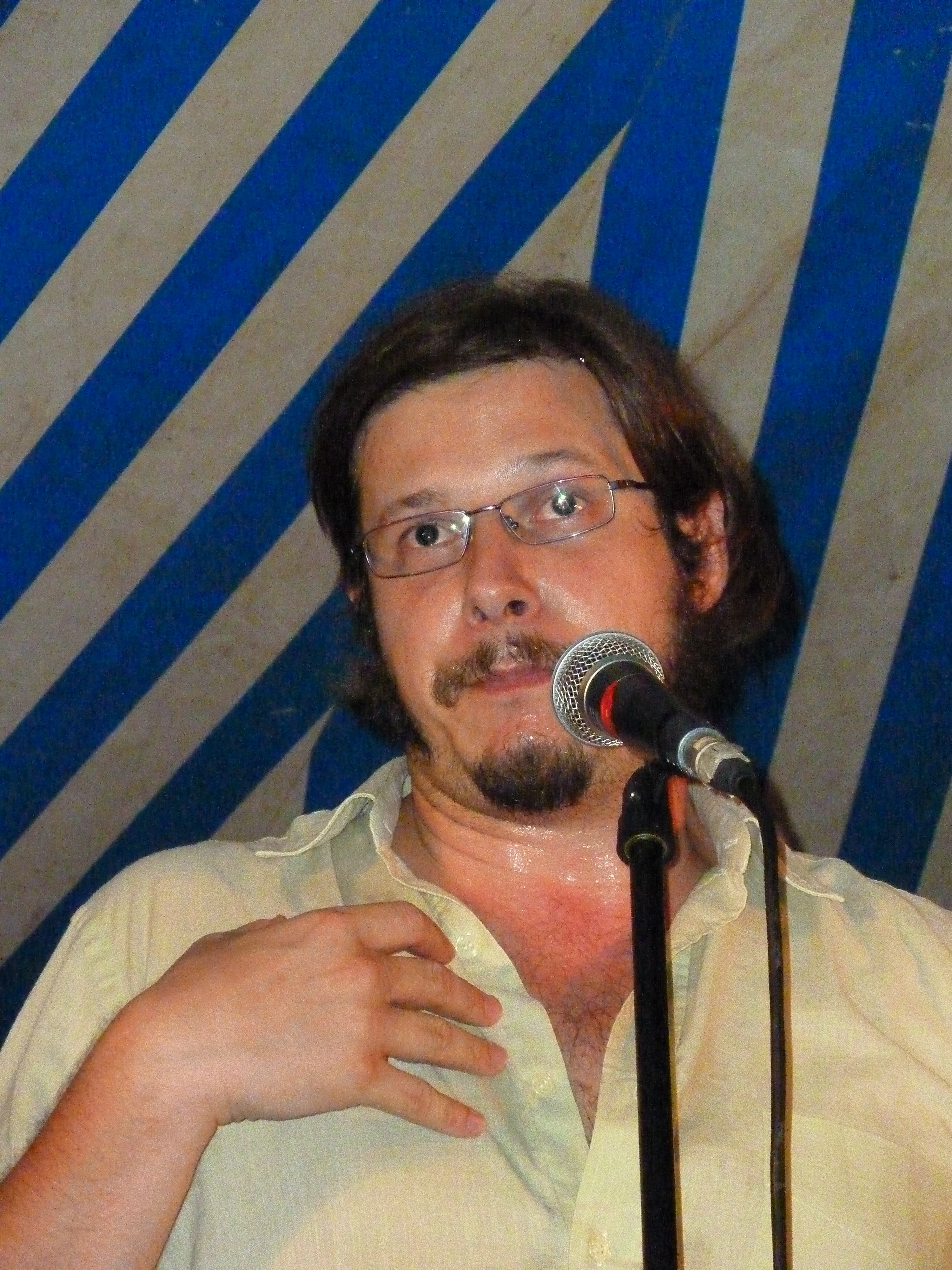 Josep Pedrals during a performance with "els nois eutròfics" (august 1st, 2010)